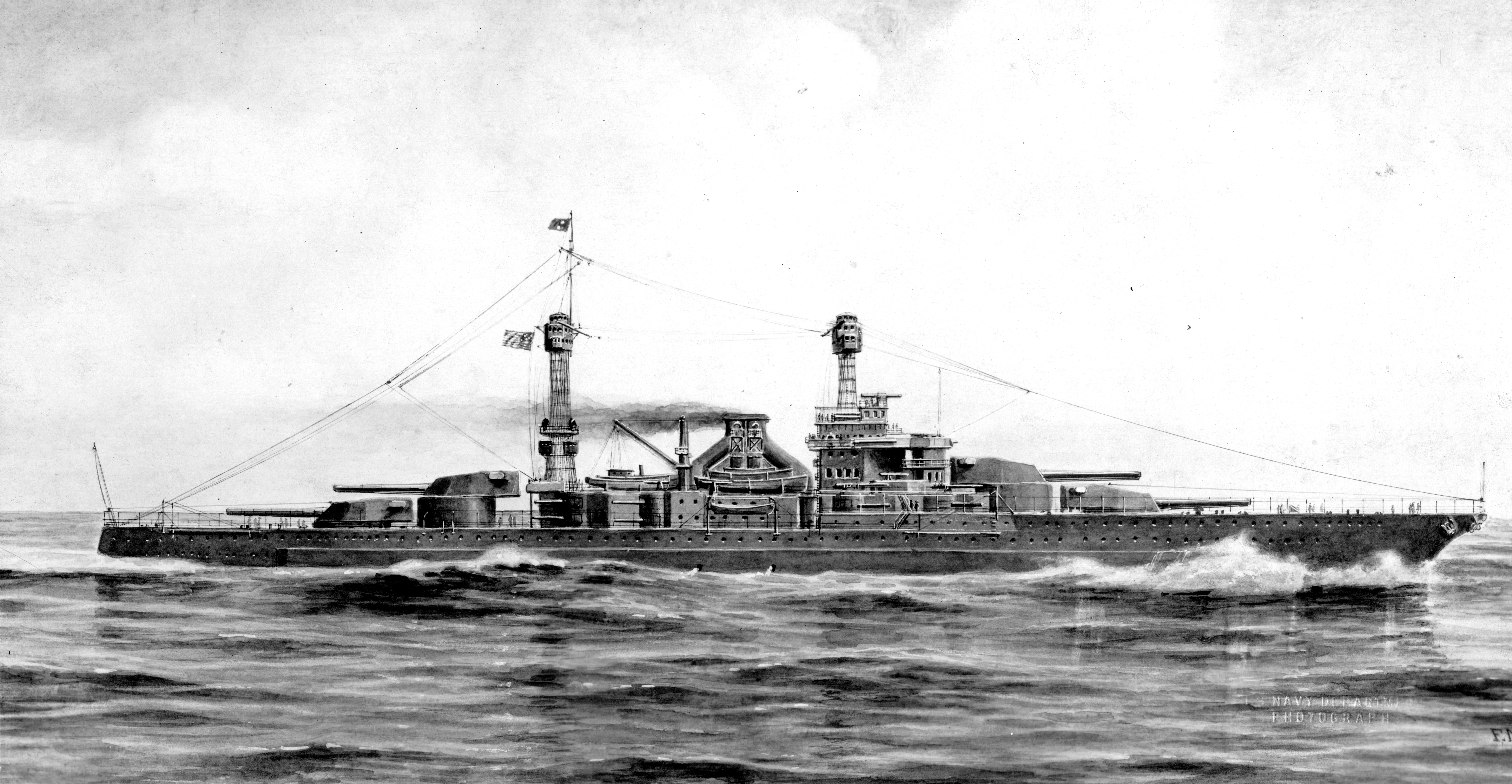 Artwork by F. Muller, circa 1920. The ships of this class, whose construction was cancelled in 1922 under the terms of the Naval Limitations Treaty, were: South Dakota (BB-49); Indiana (BB-50); Montana (BB-51); North Carolina (BB-52); Iowa (BB-53); Massachusetts (BB-54); U.S. Naval History and Heritage Command Photograph NH 44895.